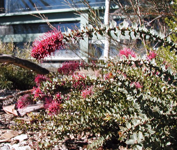 Hakea myrtoides, cult Mt Annan Botanic Gardens, SW Sydney photo Cas Liber